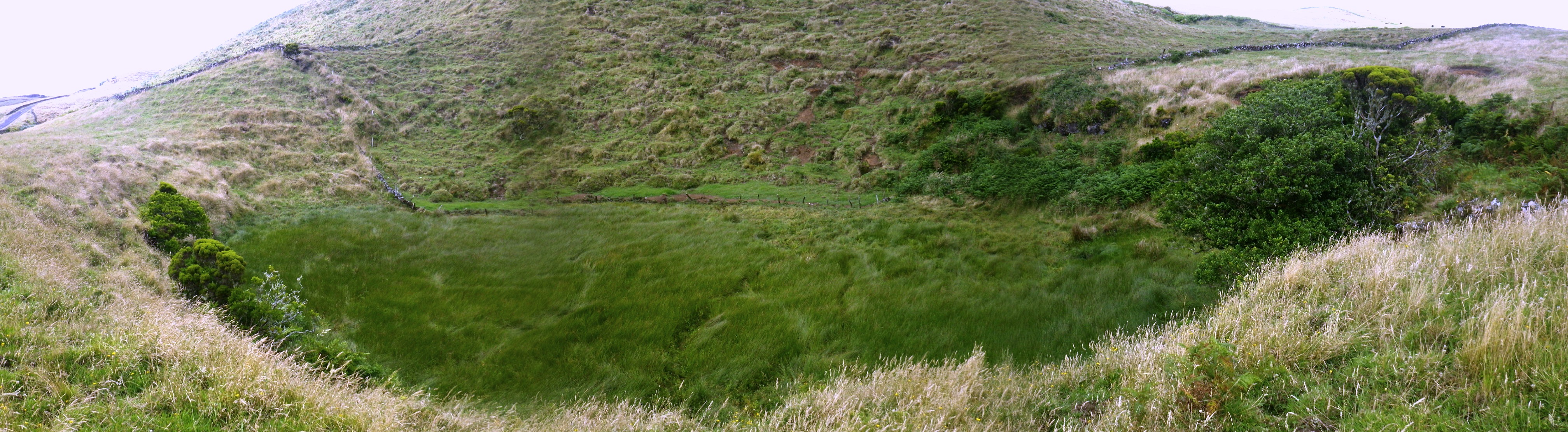 Lagoa Negra, small lake near Rochinha elevation, Pico island